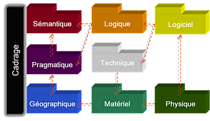 Enterprise System Topology (EST): the Praxeme enterprise methodology framework